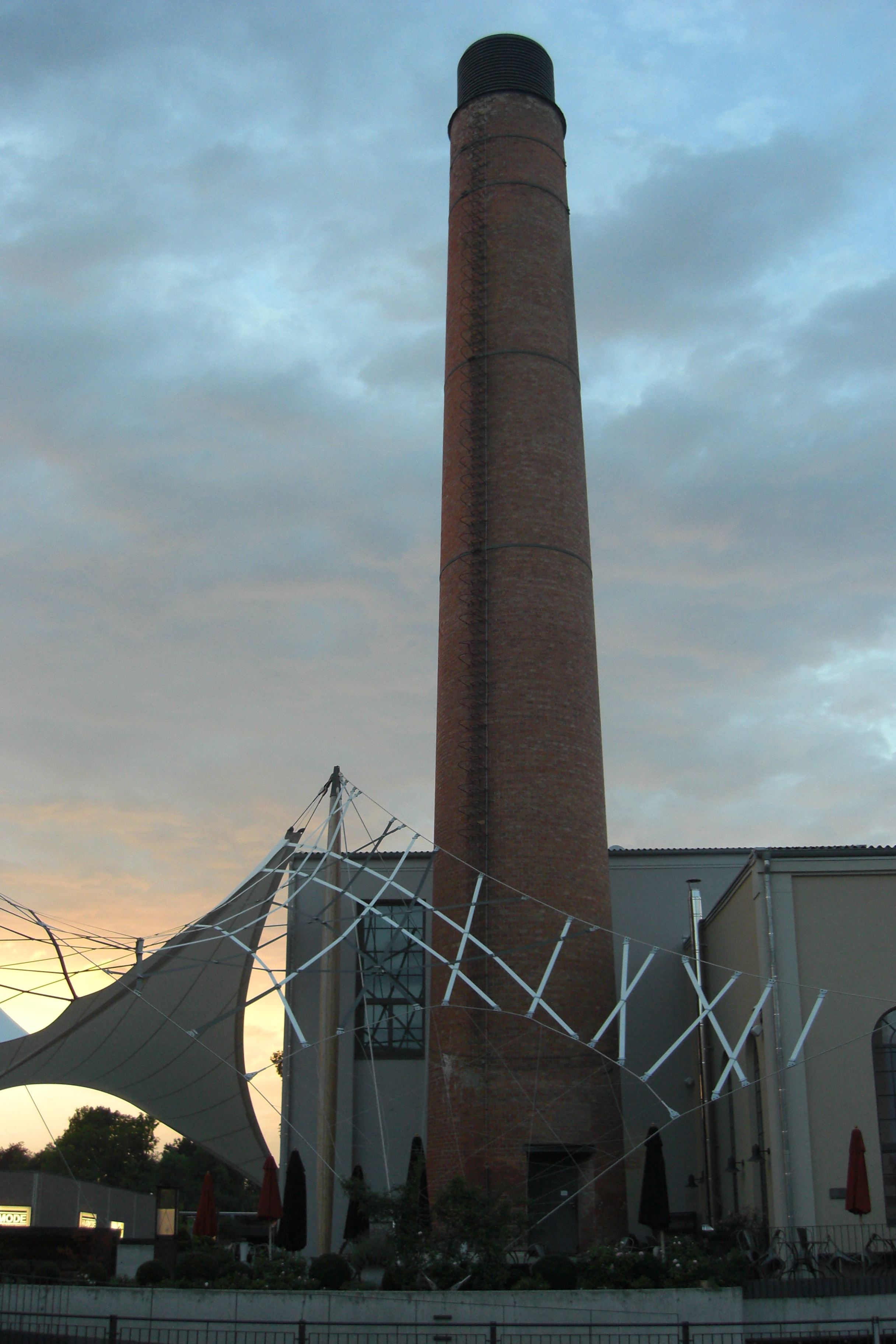 Former Boiler house in the city of Kolbermoor.